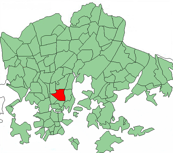 Map of Helsinki highlighting Vallila